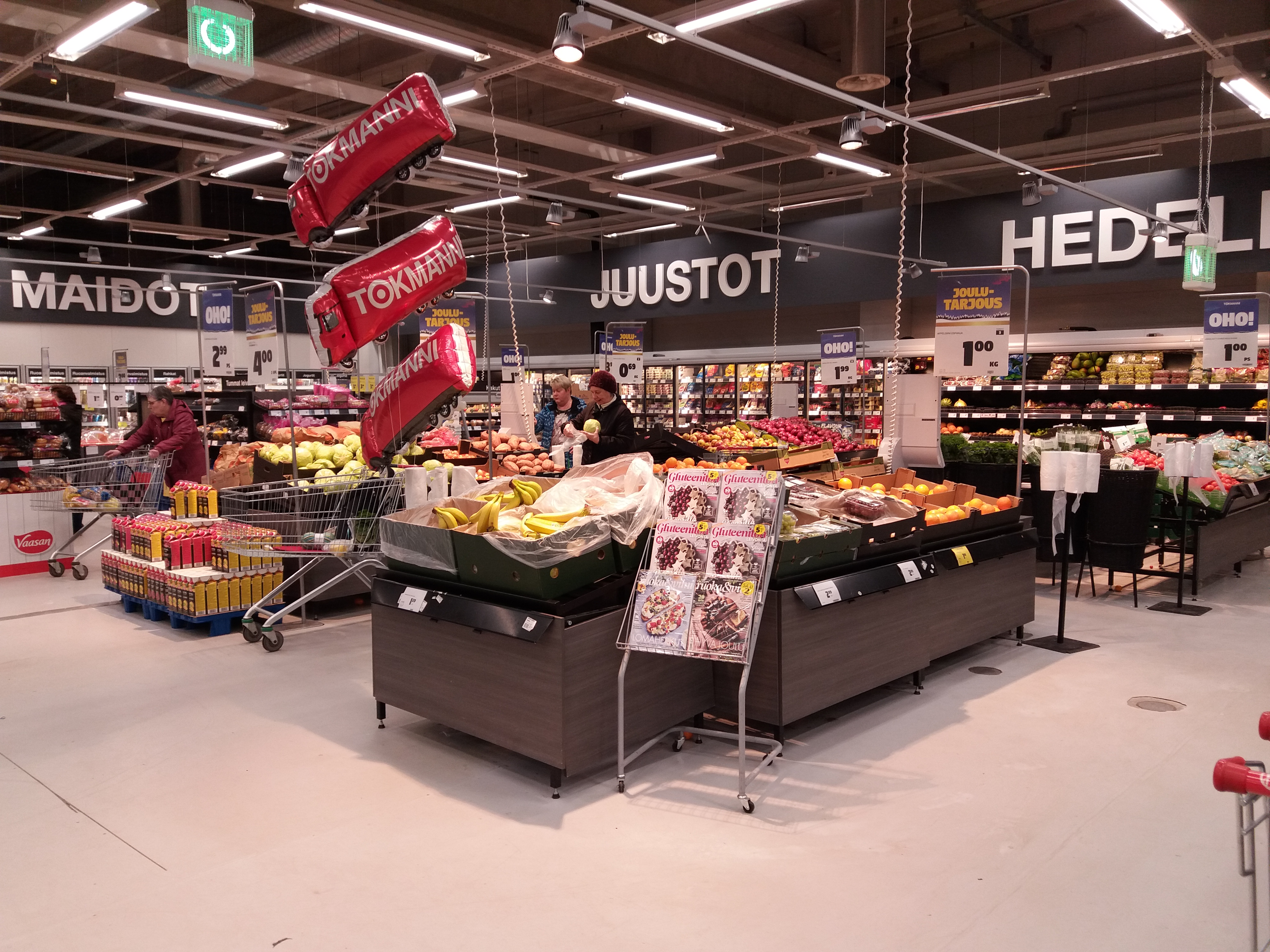 Food area in Tokmanni discount store in town of Järvenpää, southern Finland. Most of Tokmanni stores don't sell fresh food profucts, but this store sells.